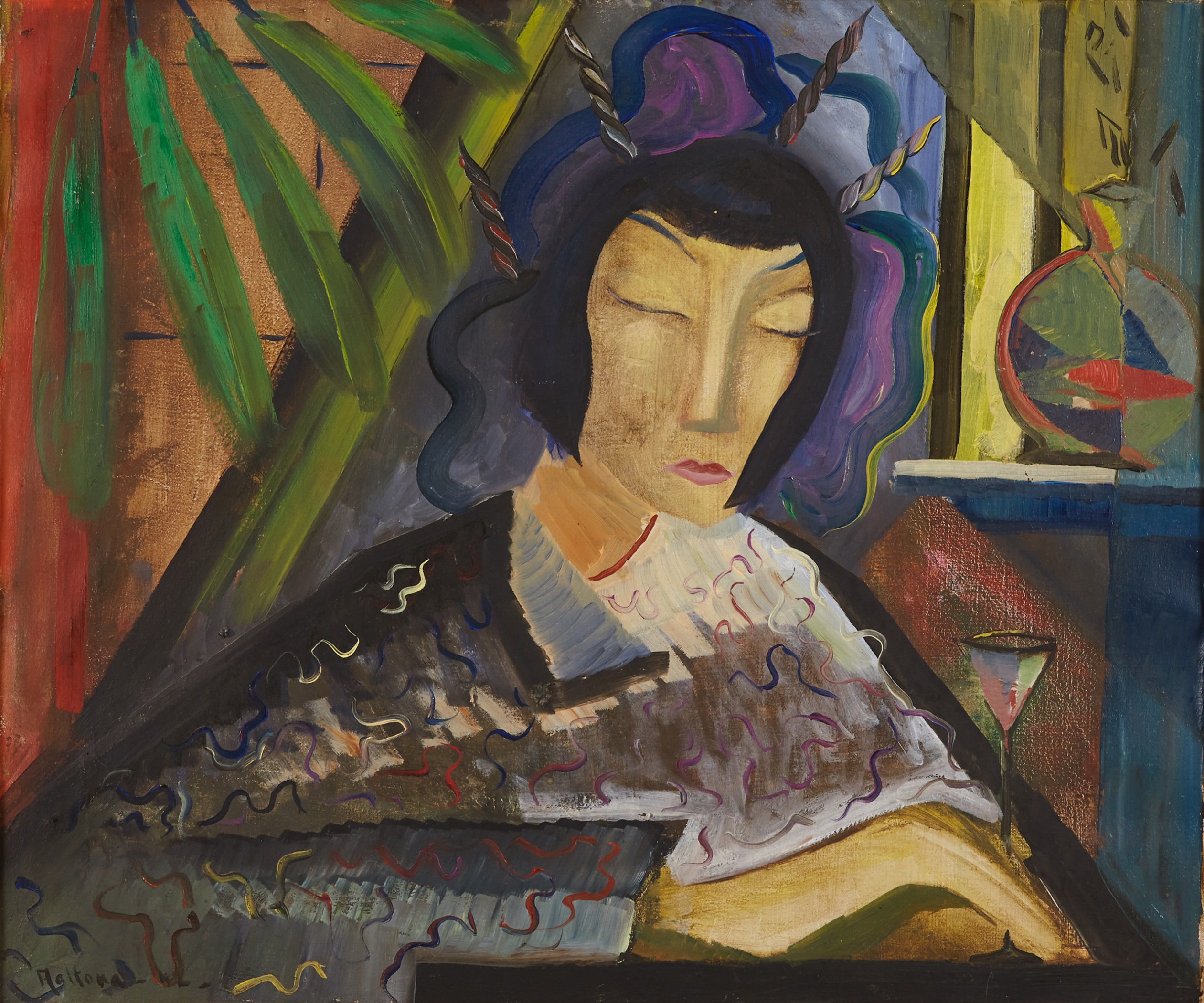 1942 painting by Veikko Aaltona